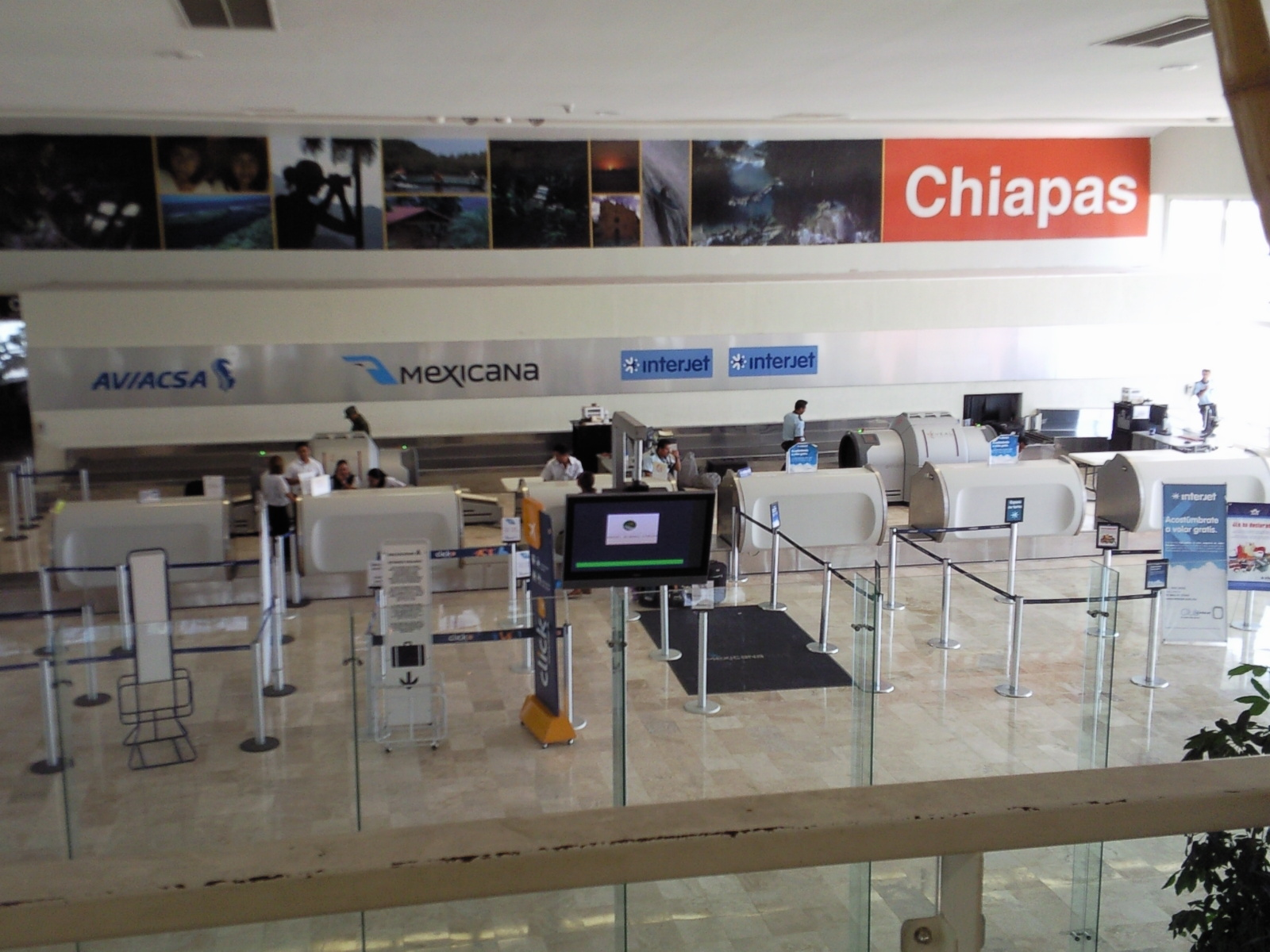 Check-in area, Ángel Albino Corzo International Airport, Tuxtla Gutiérrez, Mexico.